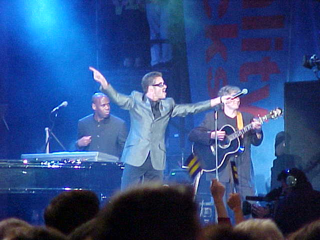 George Michael at the Equality Rocks concert held on April 29, 2000 at the Robert F. Kennedy Memorial Stadium in Washington, D.C., USA.